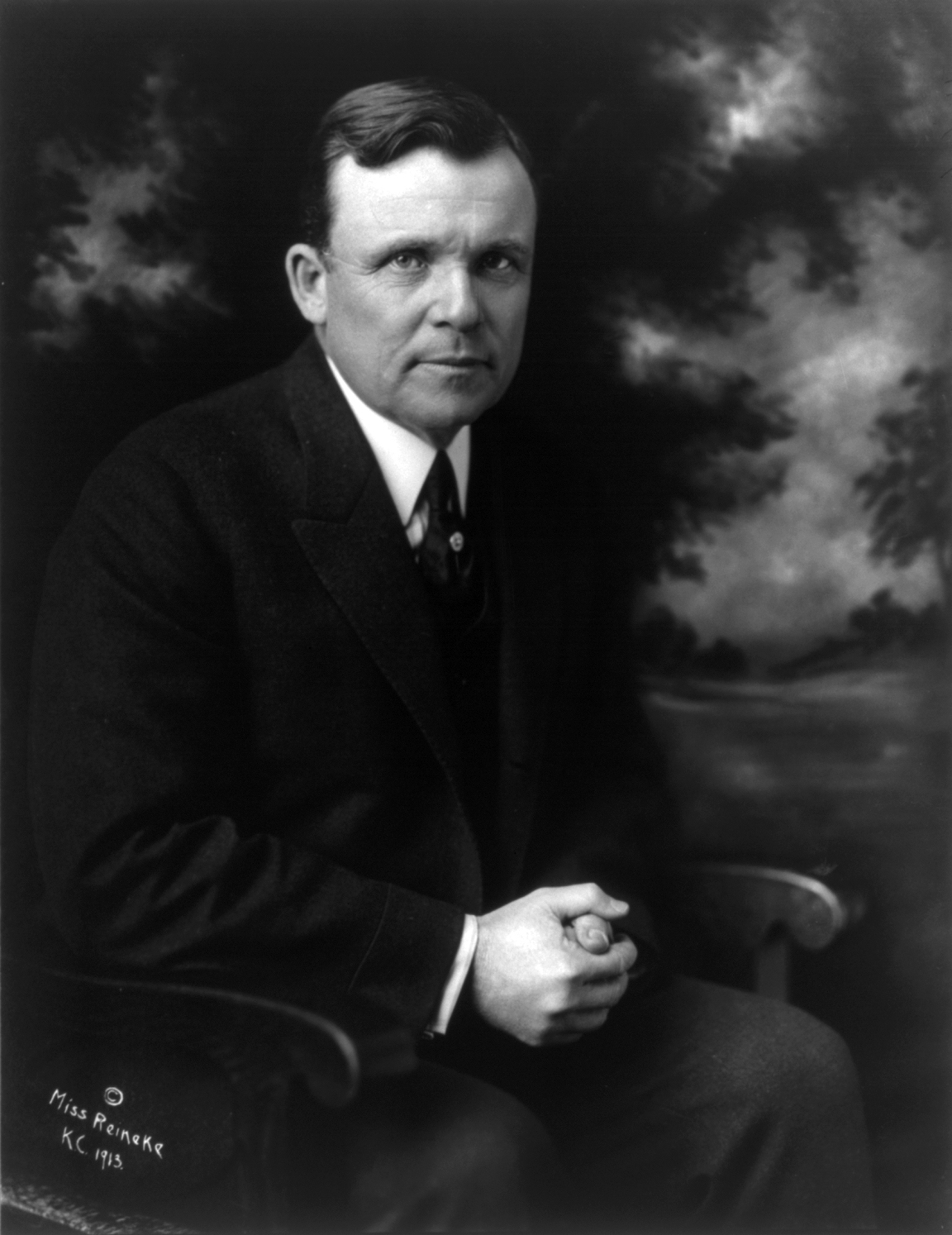 Frank P. Walsh, American lawyer involved in the labor movement